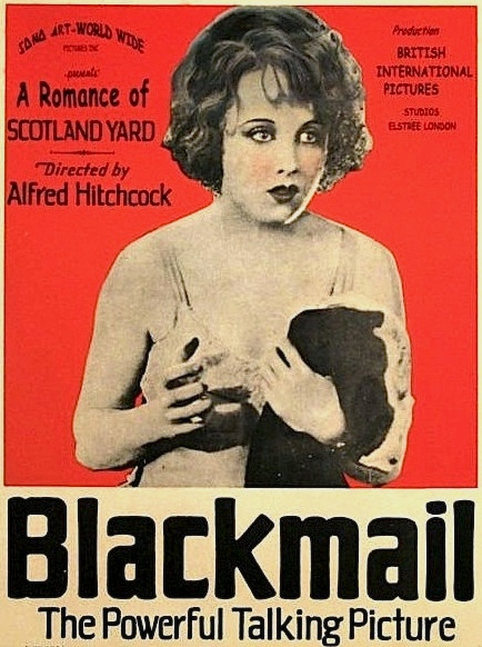 U.S. moviehouse window card for the motion picture Blackmail (1929), directed by Alfred Hitchcock, featuring star Anny Ondra